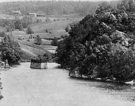 Picture is cropped from an early 20th century postcard of Villa Elfkullen in Uddevalla, Sweden. It depicts "Tureholm", an artificial islet in the river Bäveån which was created by Ture Malmgren.